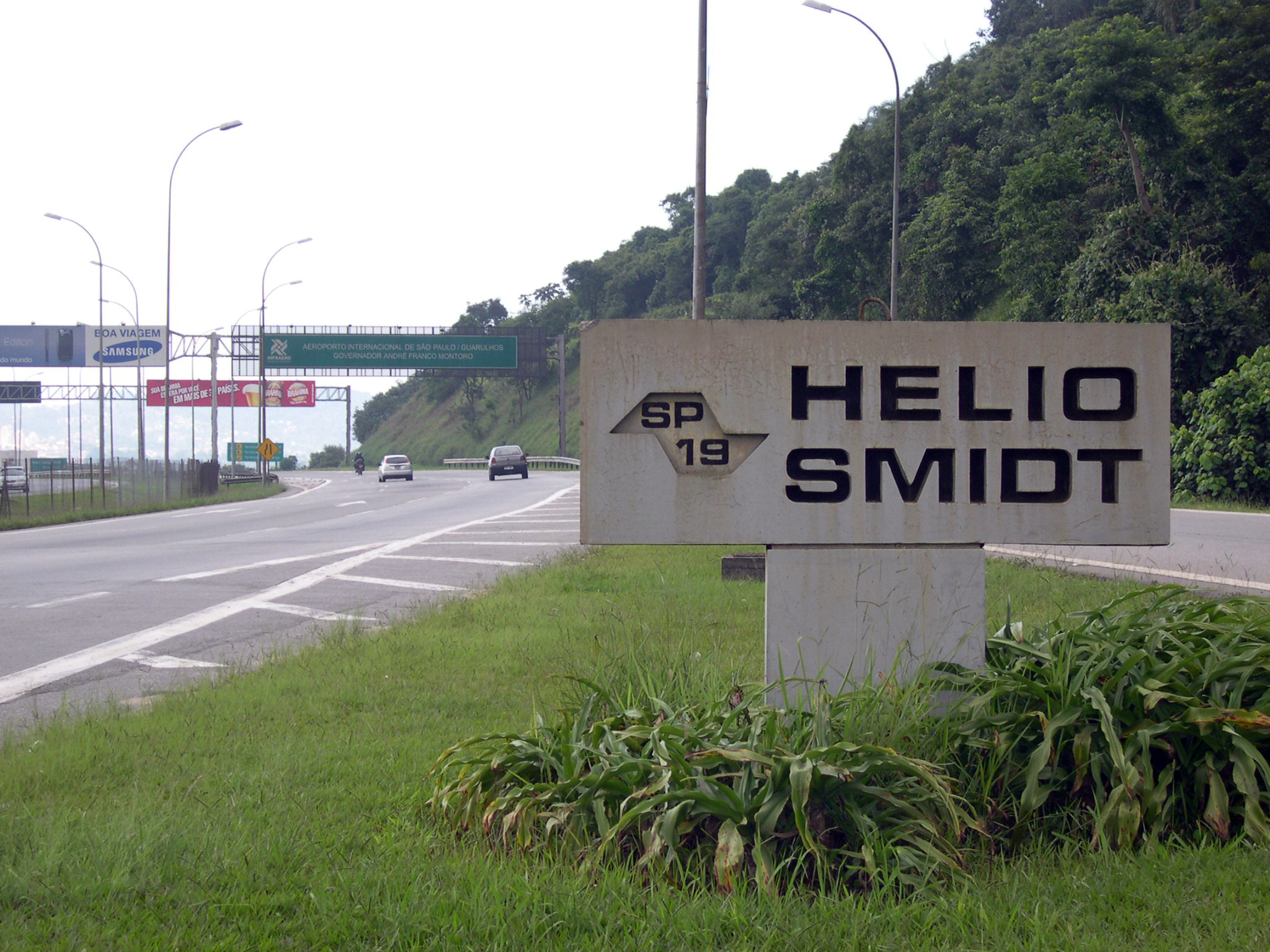 The Helio Smidt Freeway (SP-019) that servers to access to São Paulo/Guarulhos International Airport